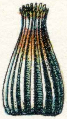 Egg of Acosmetia moth genus